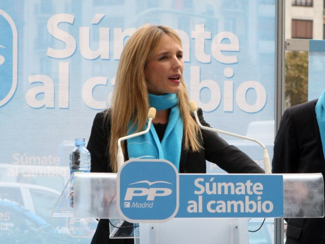 Cayetana Álvarez de Toledo